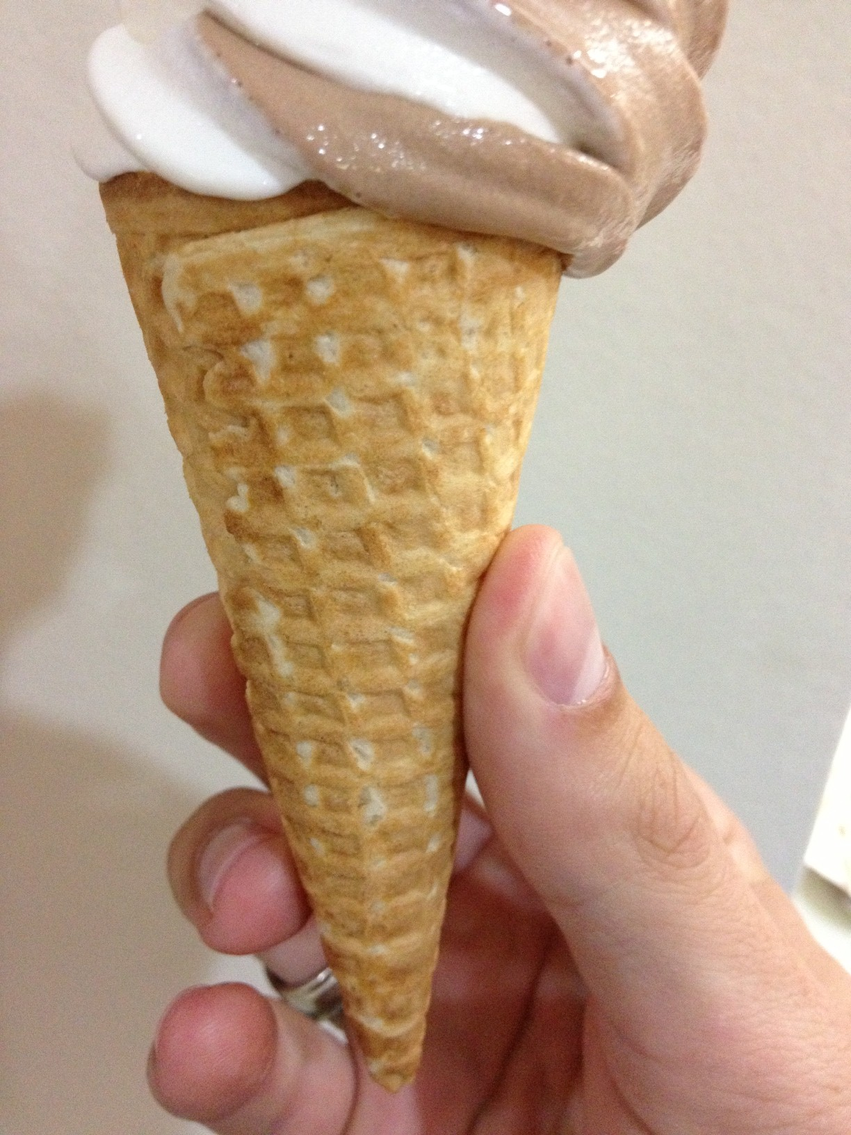 Good cone construction